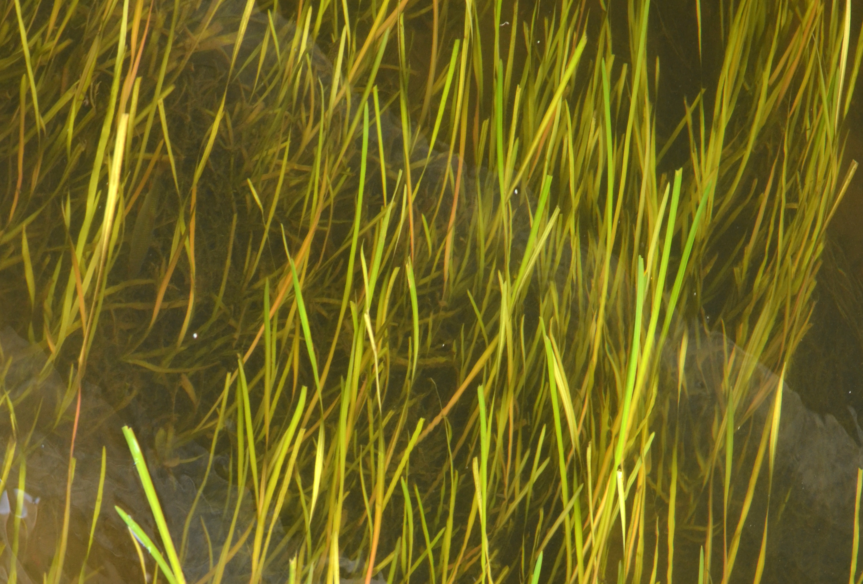 Underwater mainly composed of Vallisneria spiralis waving in the current ; shot in the Dronne River at Bantôme (France) mid-August 2014, in front of the Abbaye Saint-Pierre de Brantôme